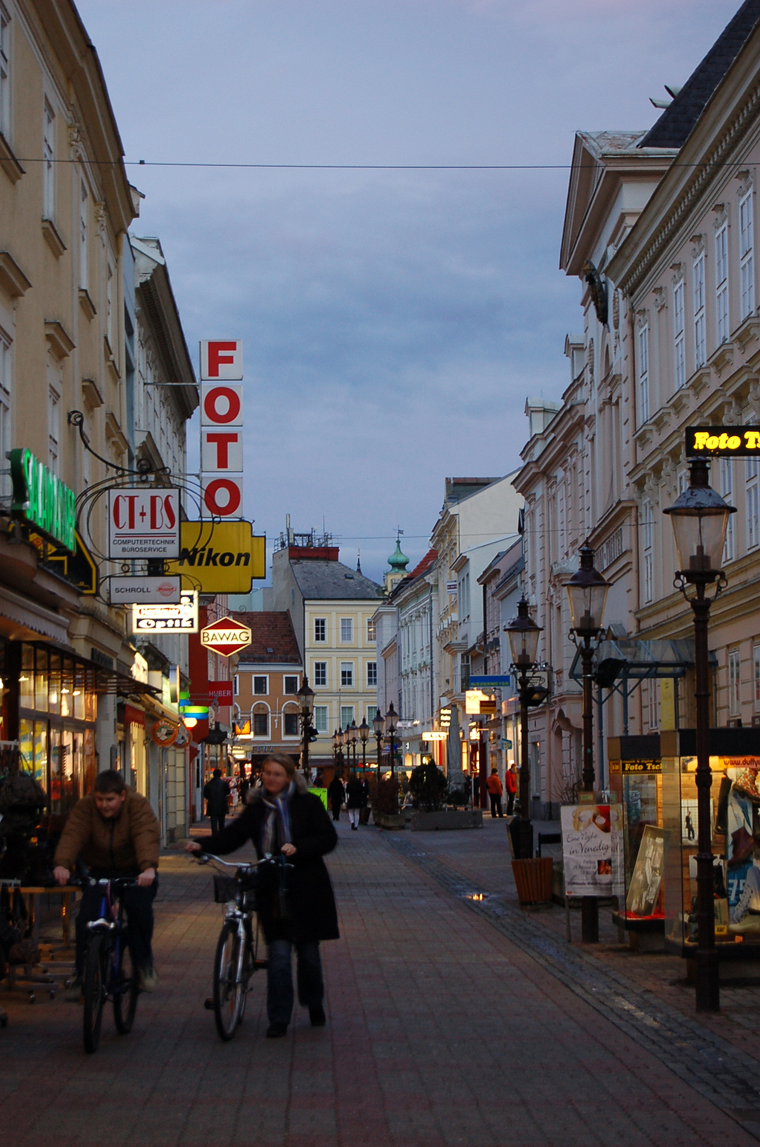 Herzog-Leopold-Straße is the main western axis of the historical centre of Wiener Neustadt, Lower Austria. The image shows a view towards the centre of town to the “Platzl” at Main square.